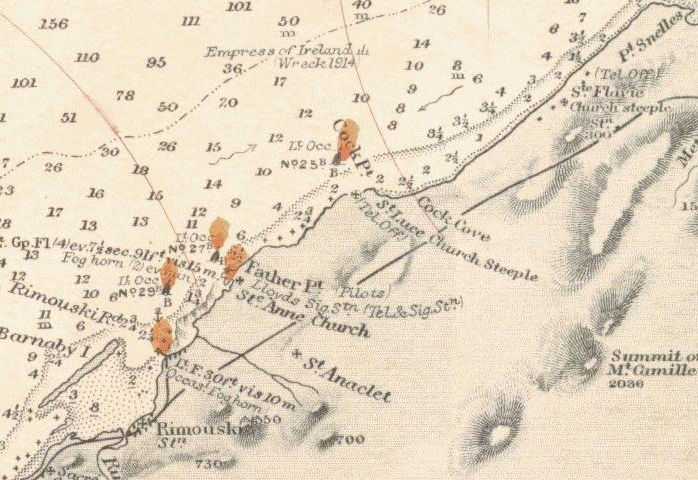 Part of nautical chart showing the position of the wreck Empress of Ireland. Near Pointe au Père (Father point). Near Rimouski.